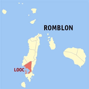 Map of Romblon showing the location of Looc